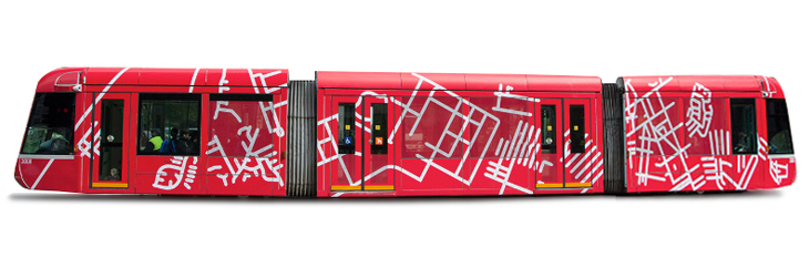 The 2015 Melbourne Festival Art Tram, Cluster.